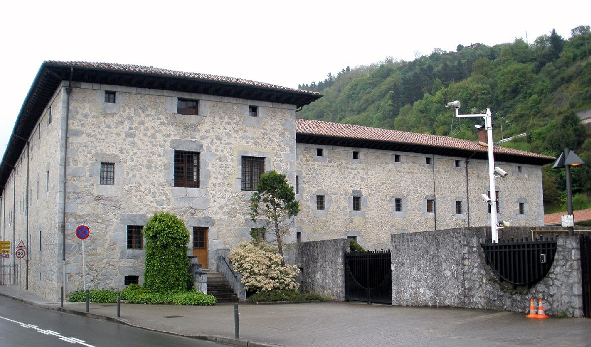 Convento de Santa Clara (Tolosa)